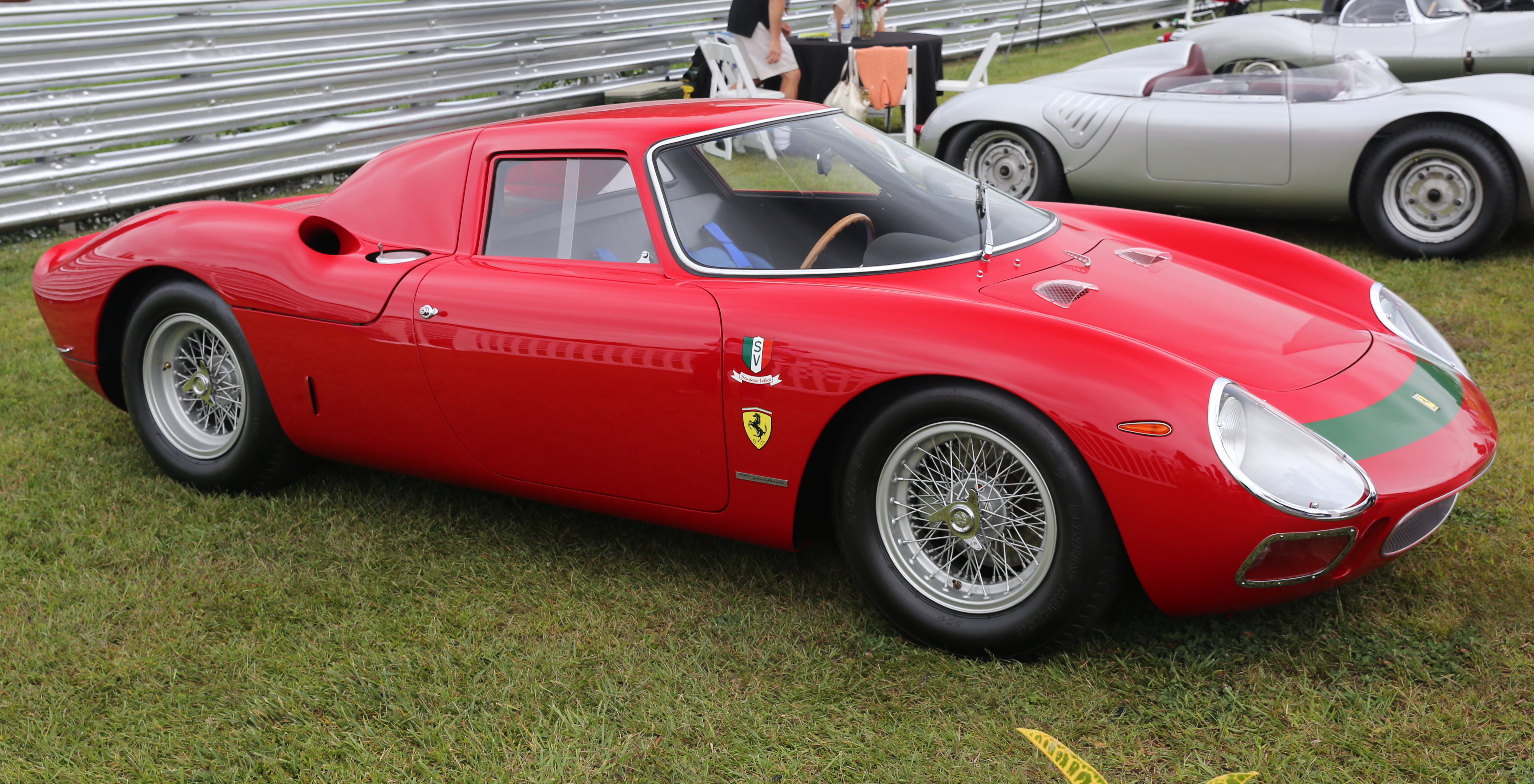 Ralph Lauren's 1964 Ferrari 250LM, seen at the 2014 Lime Rock Concours d'Élegance.